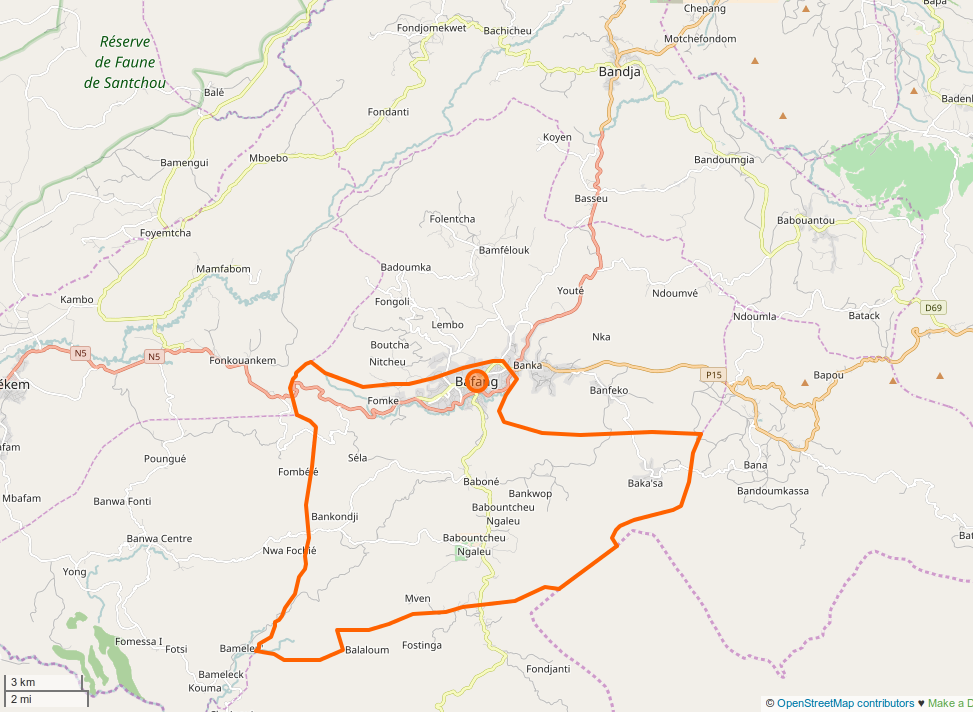 Bafang in Cameroon ː city boundaries with OSM. This map may be incomplete, and may contain errors. Don't rely solely on it for navigation.